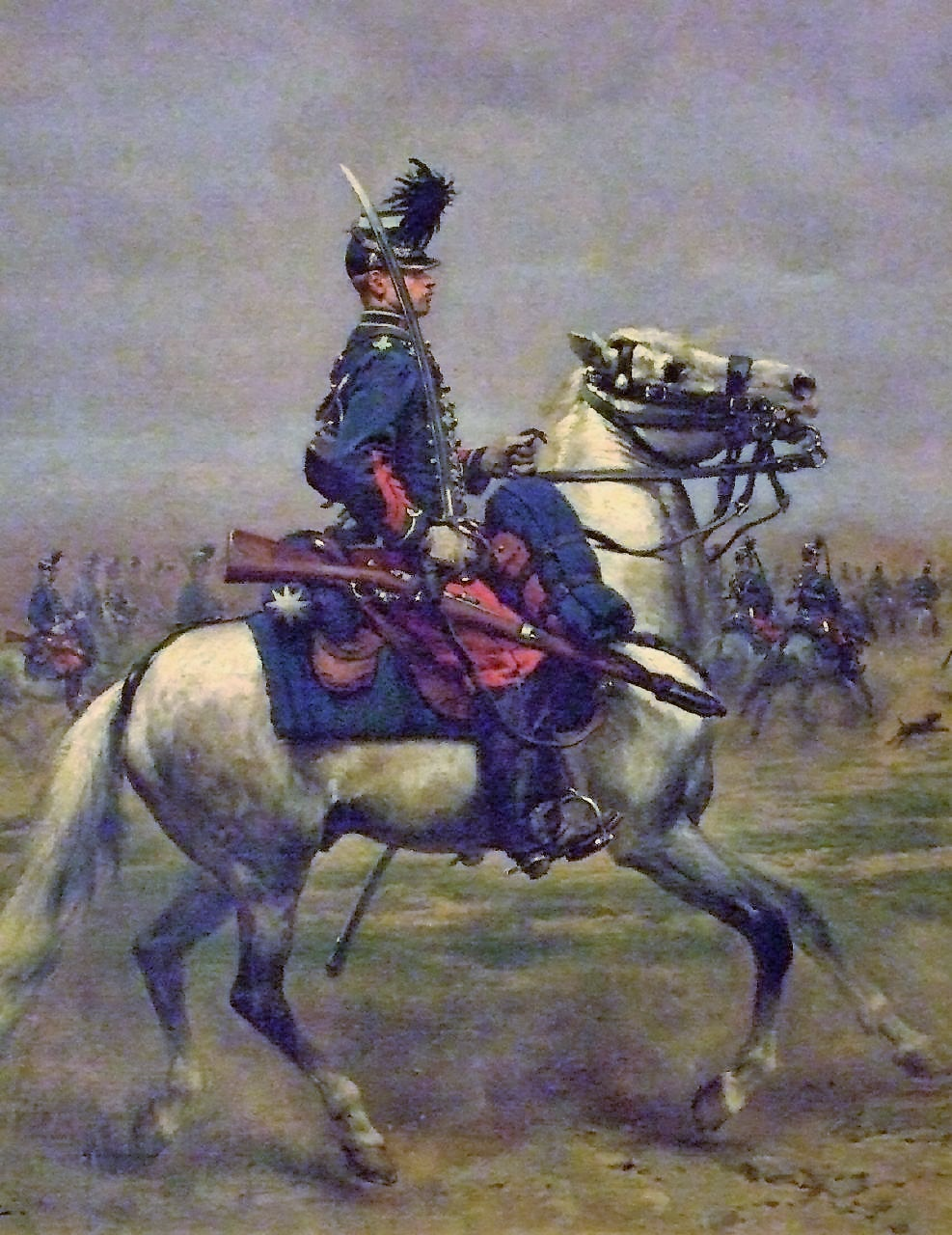 French Hussar (1880-1900) by Edouard Detaille